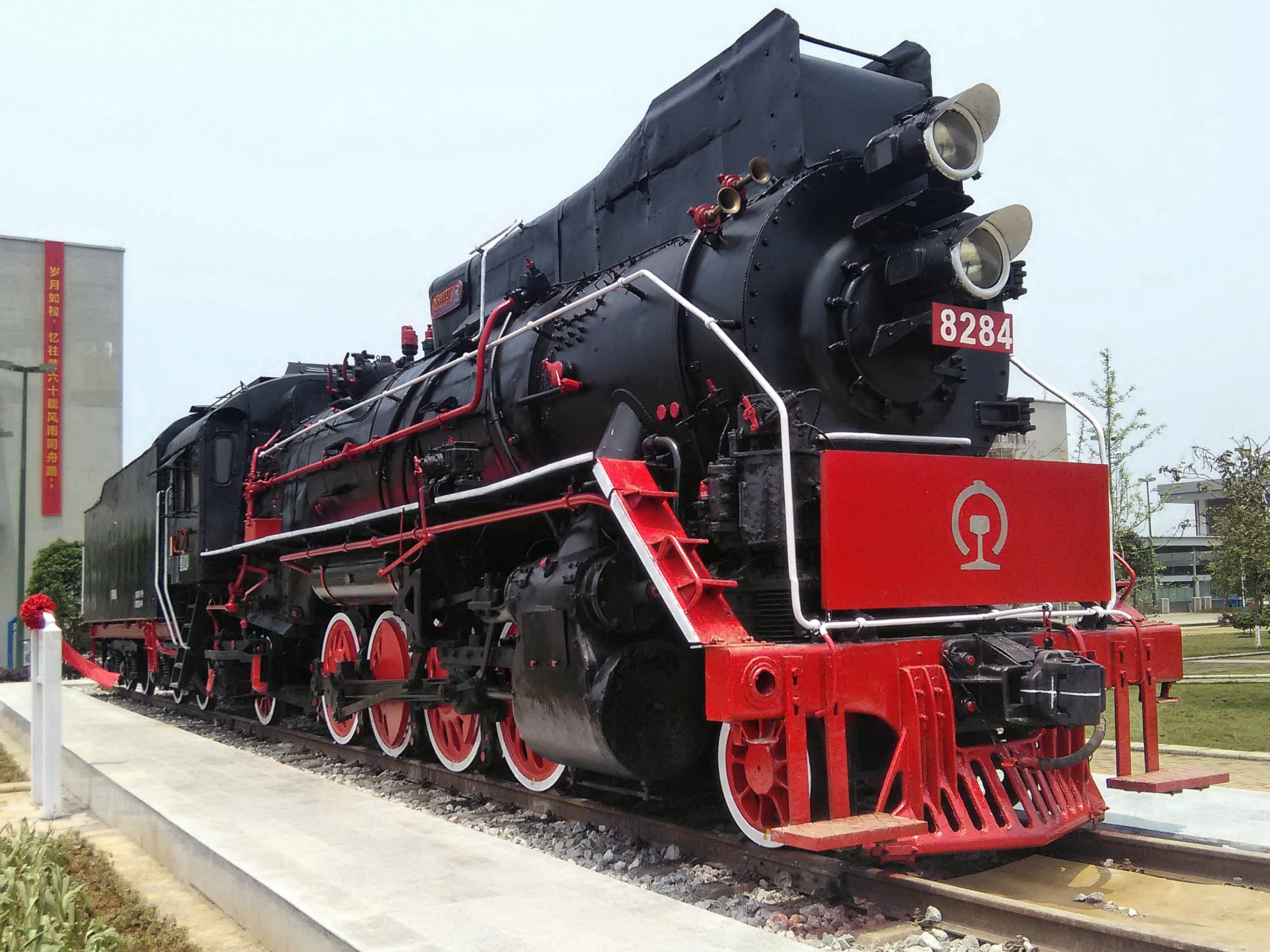 JS-8284 is preserved at Liuzhou Railway Vacational Technical College.